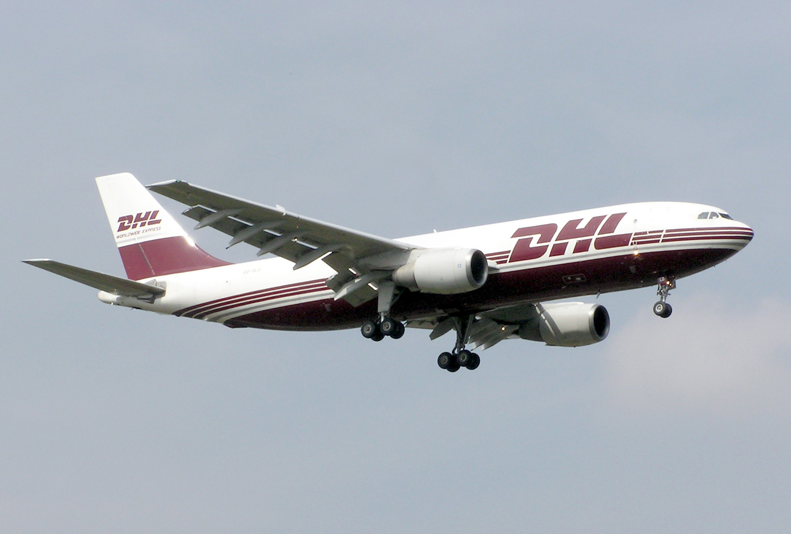 DHL Airbus A300B4-200F (OO-DLG or OO-DLD) landing at London Heathrow Airport, England.